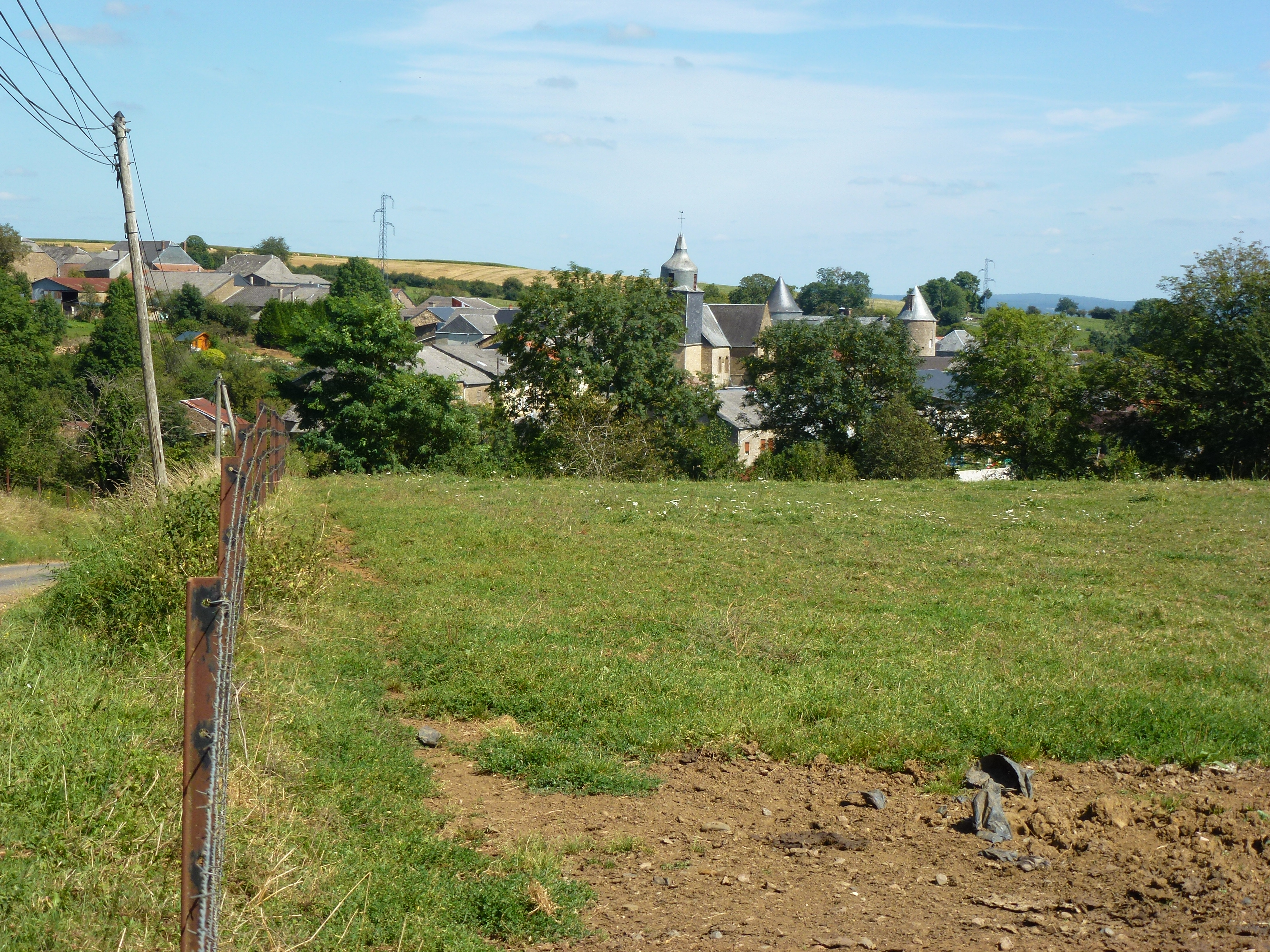 L'Échelle (Ardennes) vue du village